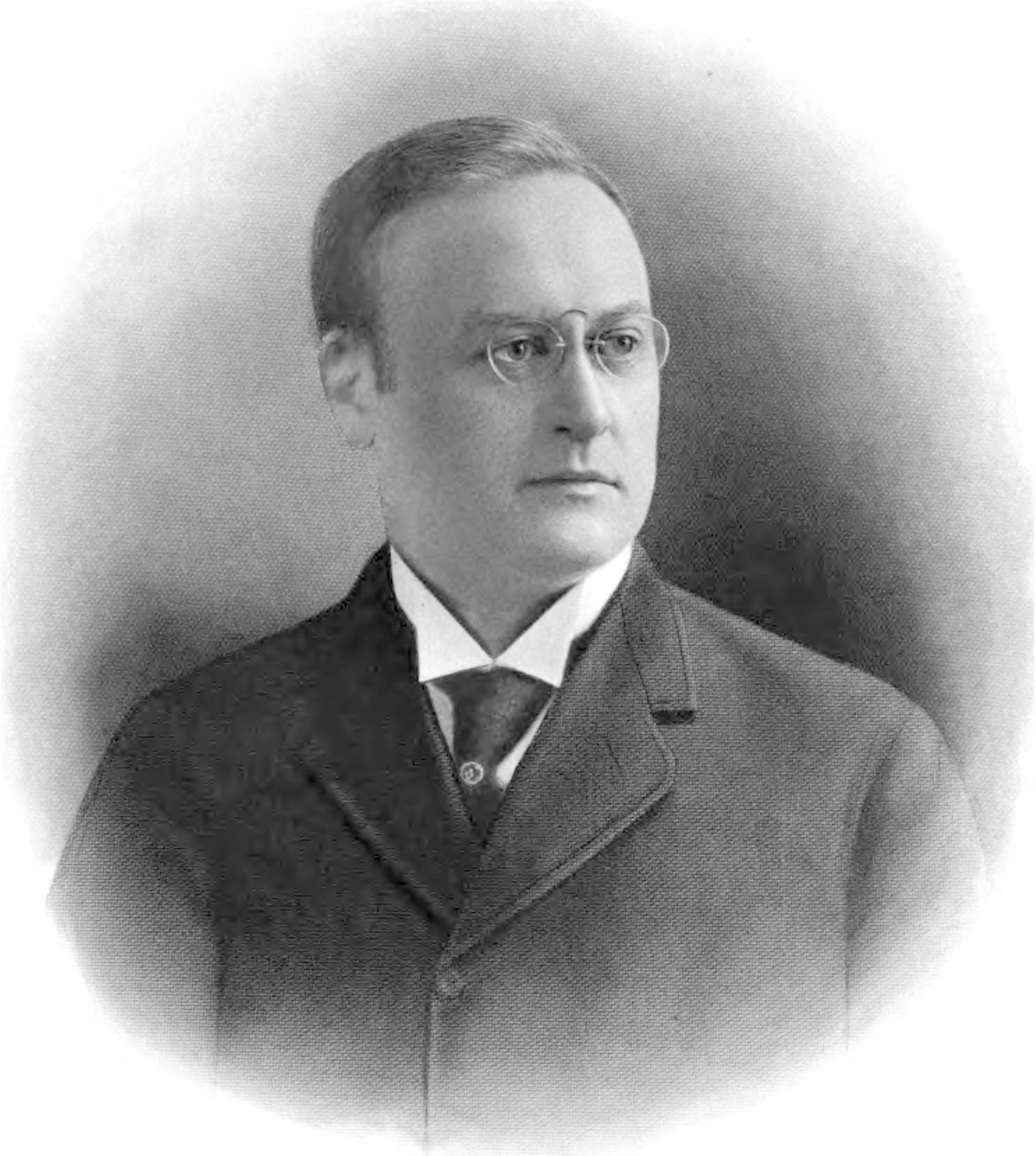 W. Aubrey Thomas, congressman from Ohio.